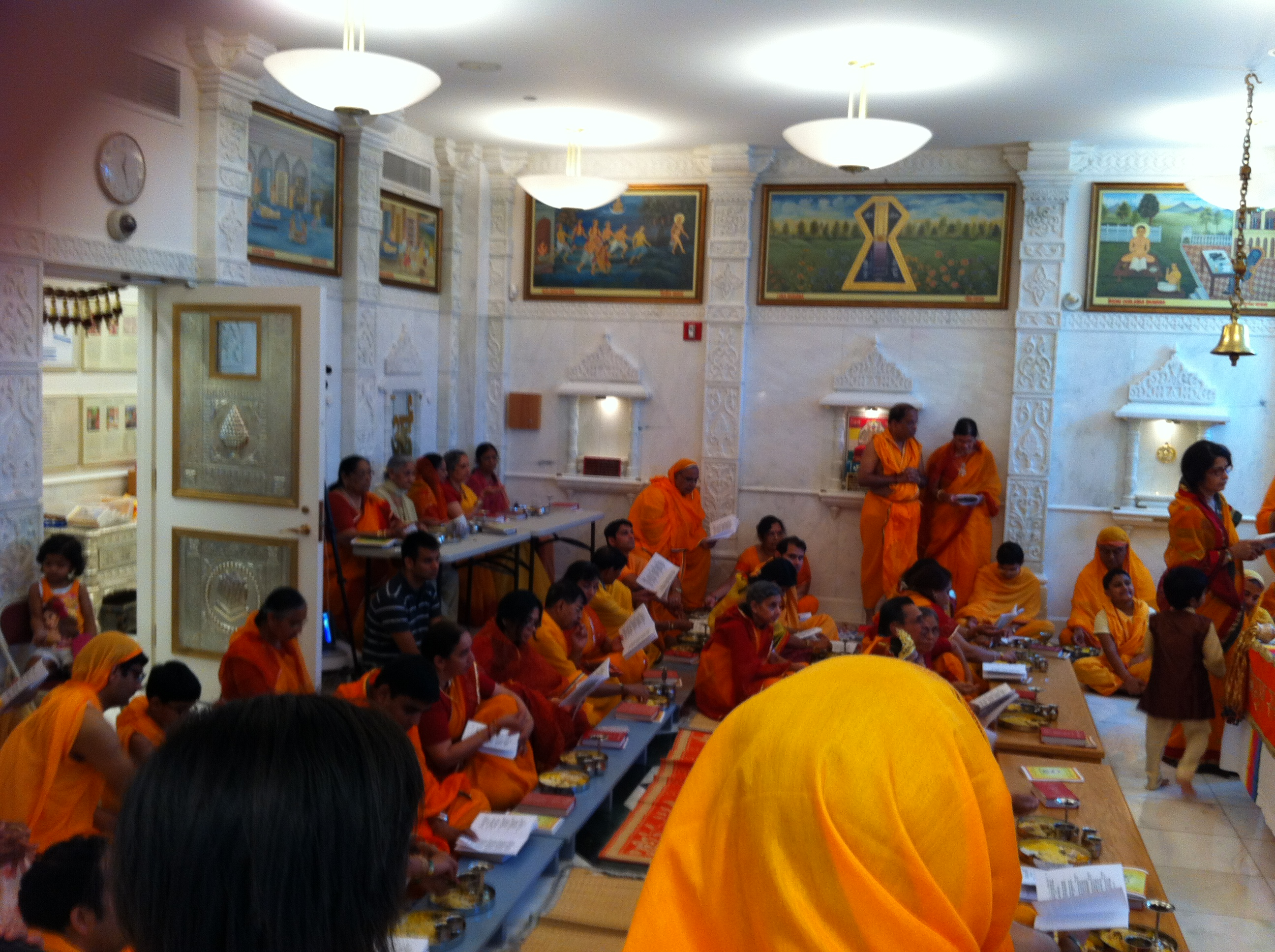 Inside a Jain temple, Jains celebrating the 10 day Das Lakshana (Paryusana) festival. Taken at the Jain Center of America, New York City, New York, USA.